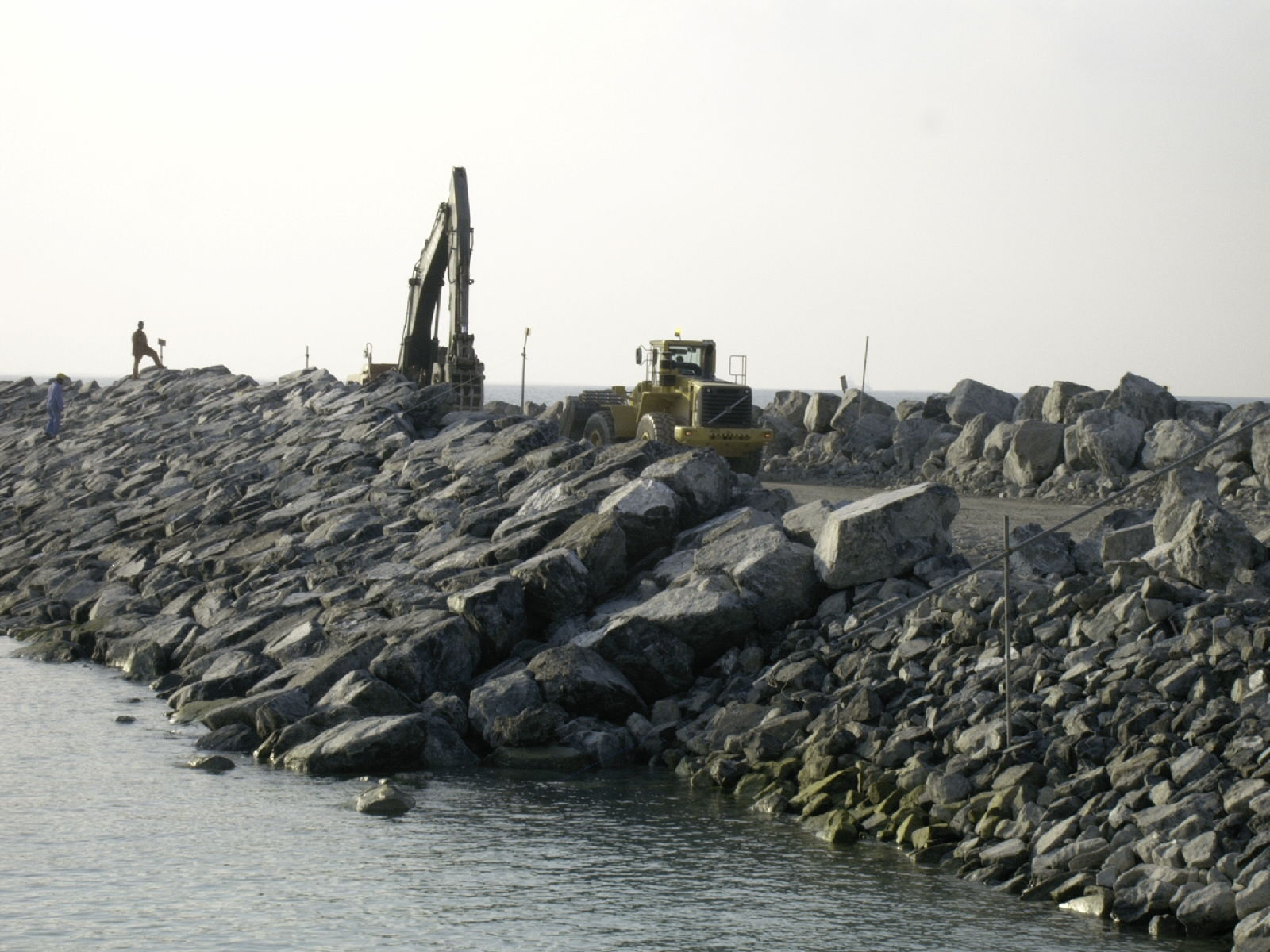 Riprap revetment in two layers on geotextile under construction in Dubai